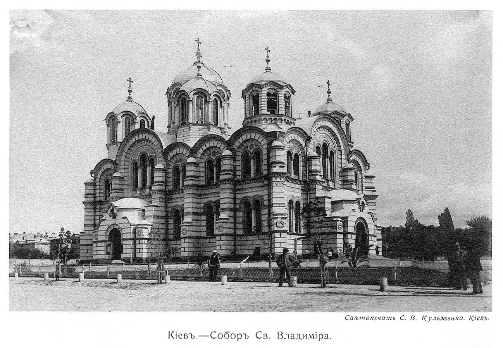 Types of Kiev. [Album phototypes]. Kiev: Svetopechat Kulzhenko S. V.